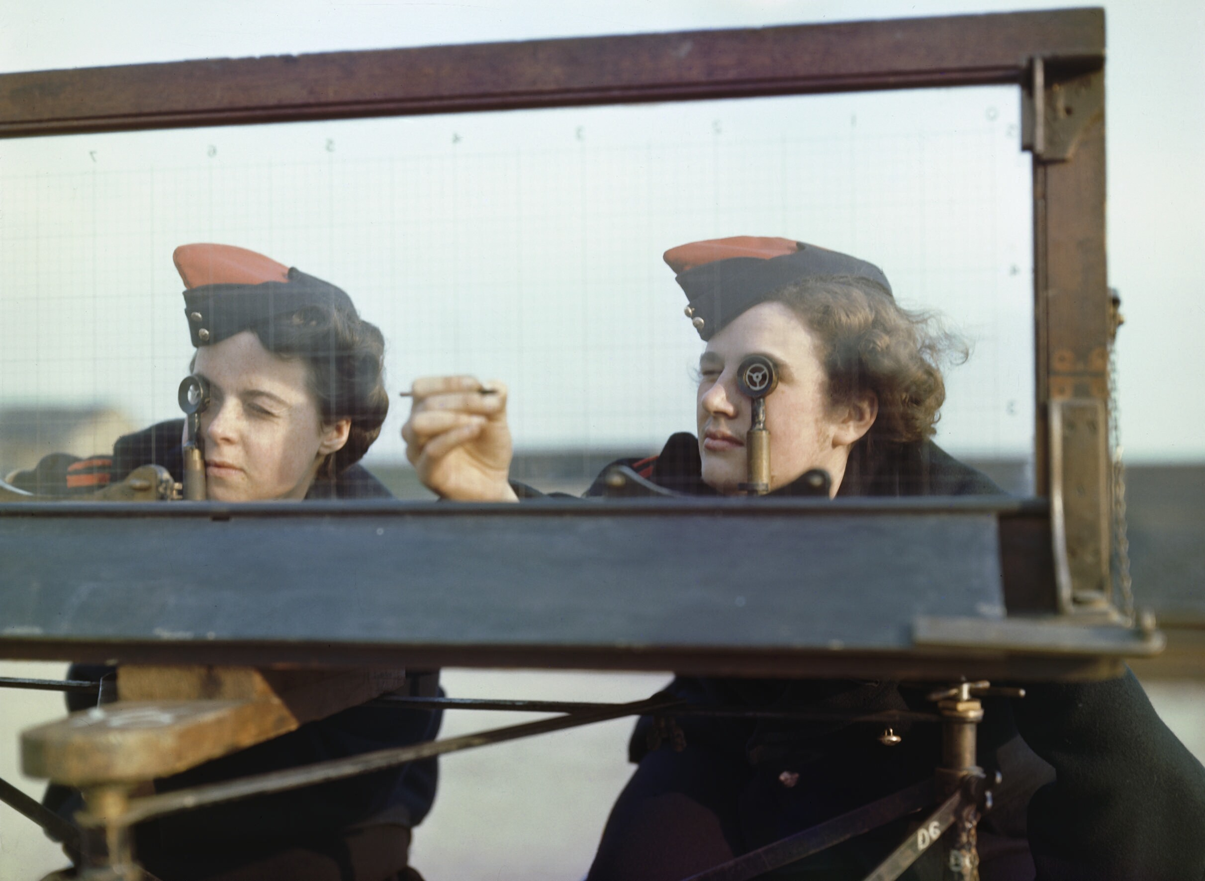 Auxiliary Territorial Service (ATS) girls at the Royal Artillery Experimental Unit, at Shoeburyness in Essex, using the Window Position Finder to sight shell bursts in the air or water, 1943. Auxiliary Territorial Service: Two ATS girls at the Royal Artillery Experimental Unit, Shoeburyness, Essex using the Window Position Finder (a glass screen engraved like graph paper which was used to sight shell bursts in the air or water).